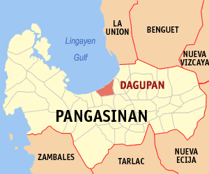 Map of Pangasinan showing the location of Dagupan City